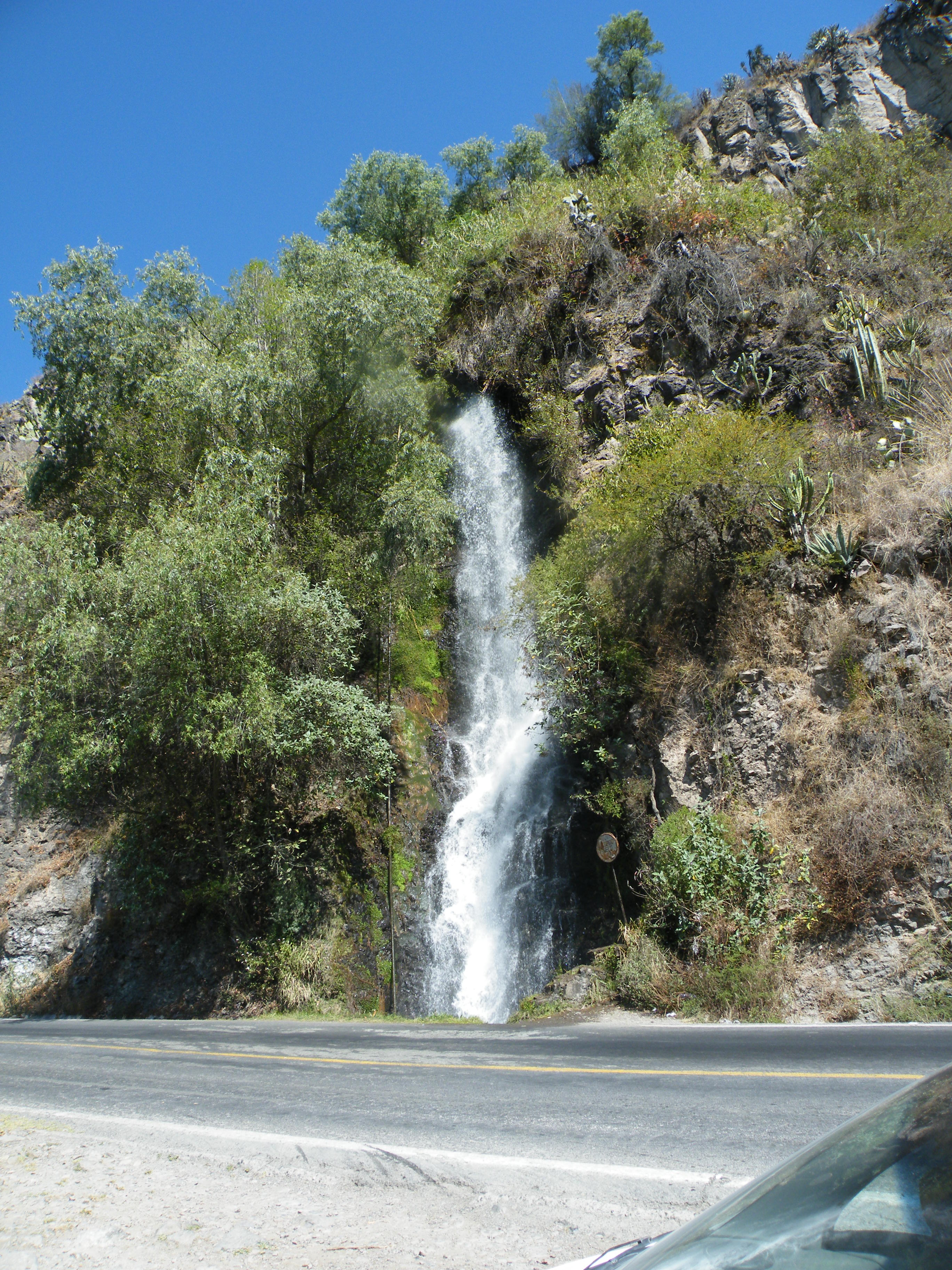 Metzquititlan North, Hidalgo